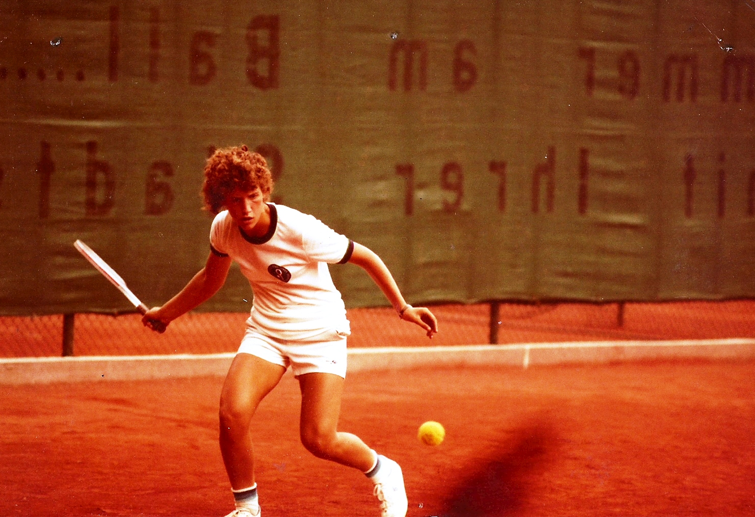 Israeli Tennis player Ilana Berger in Germany, 1979 (age 14)